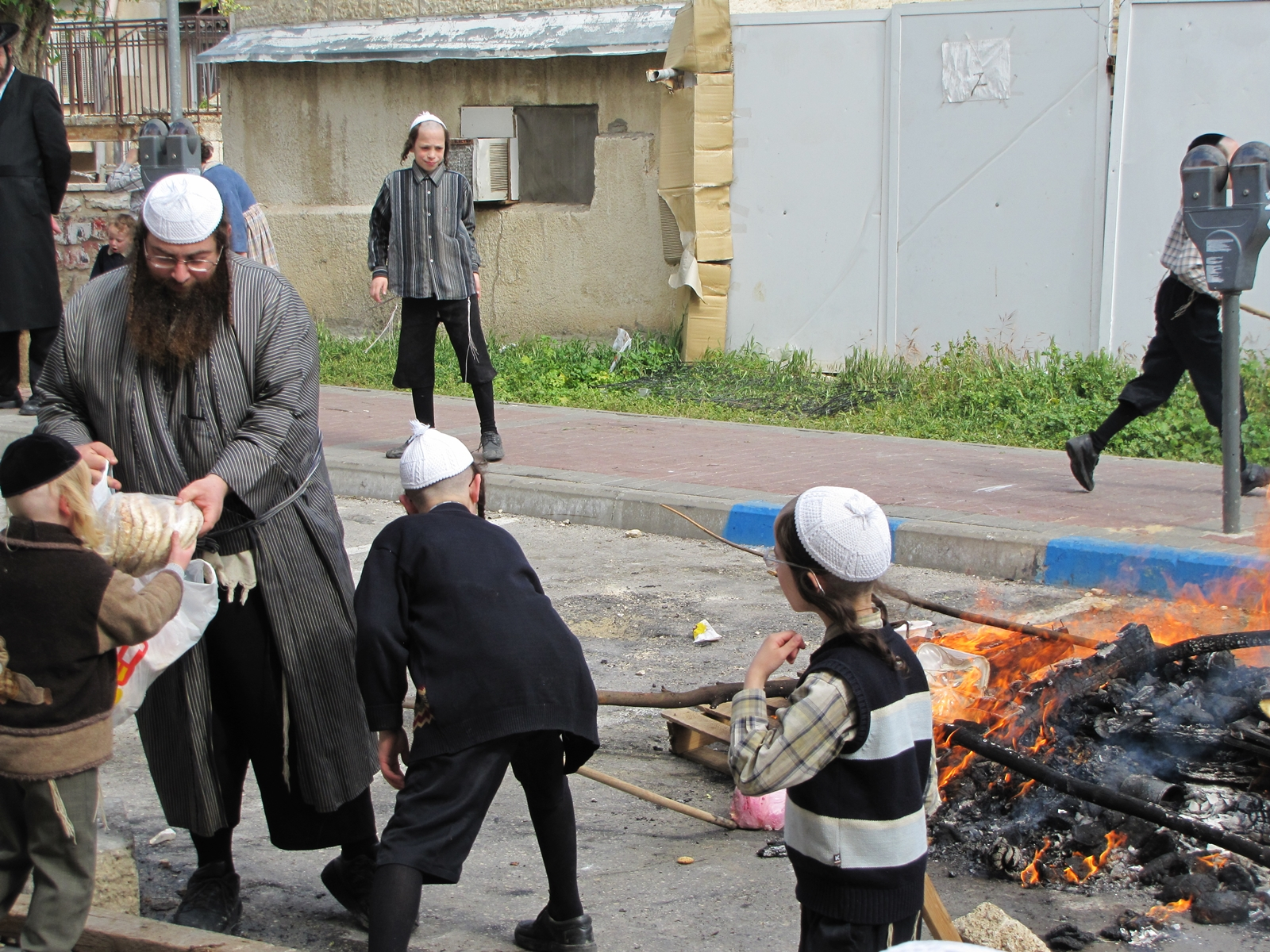 Burning the Chametz, Jerusalem, 2010